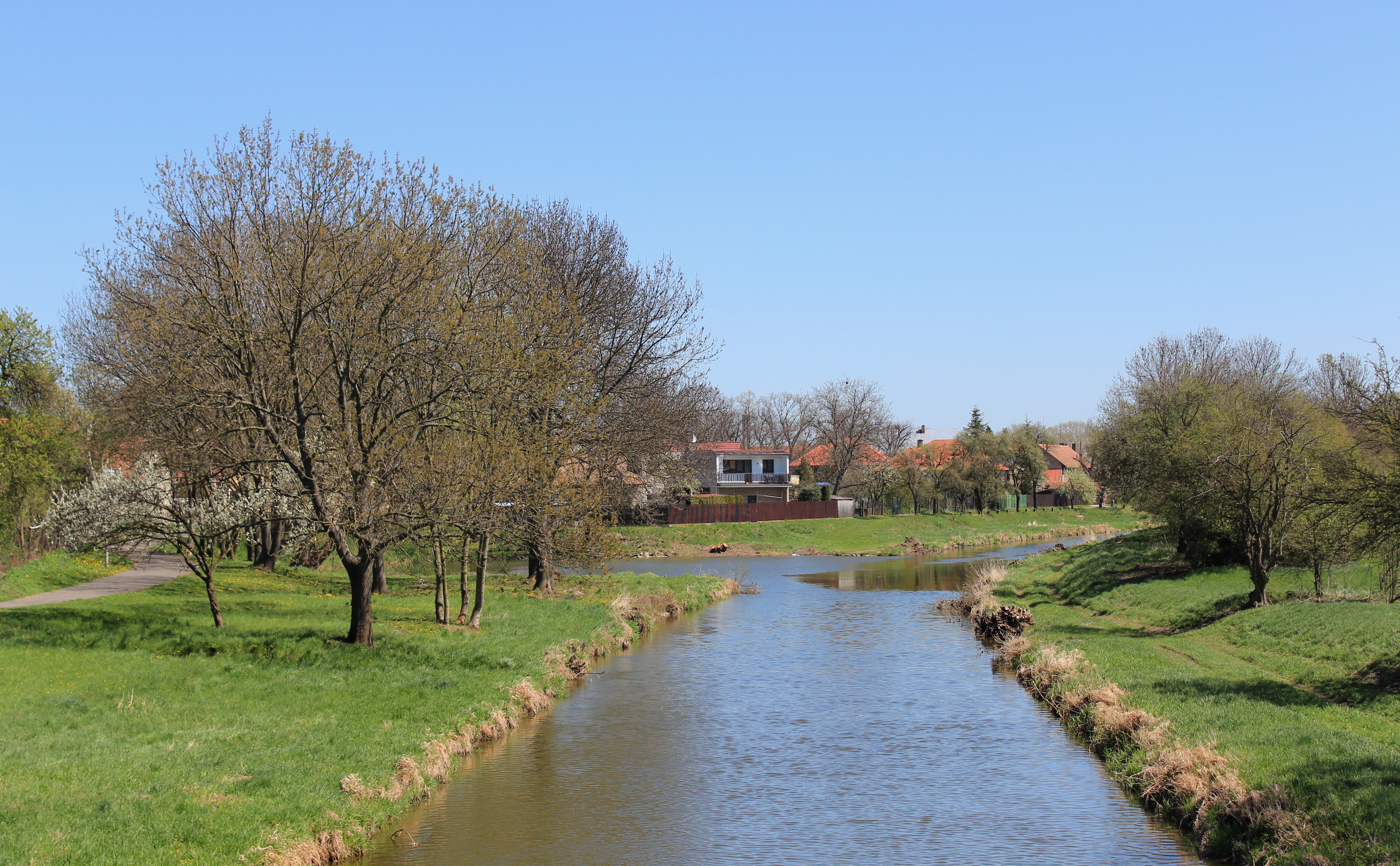 Cidlina river in Opolany, Czech Republic.